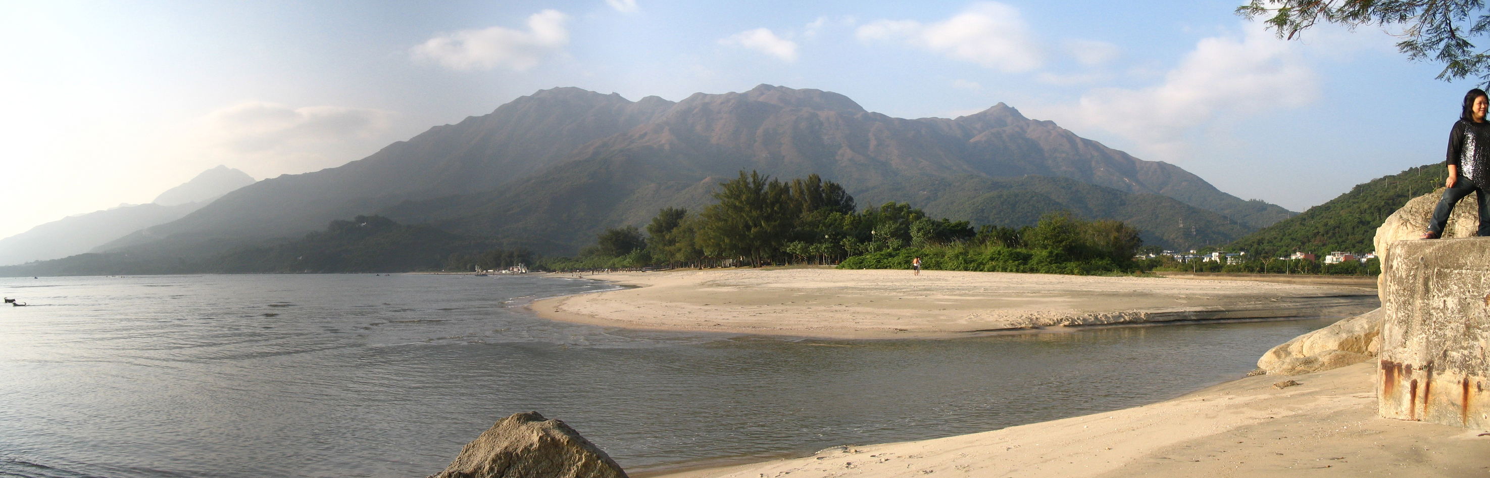 Panoramic photo of Pui O, combined from 2039526623, 2039526941, 2039527259, 2040323420 and 2040323876